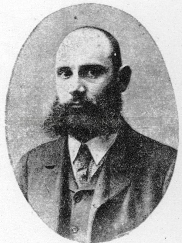 Portrait of the revolutionary Yane Sandanski (1872-1915).